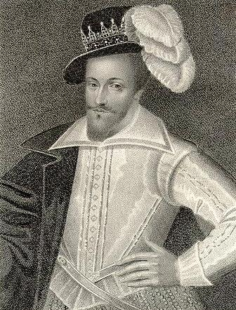 Portrait of Henry Somerset, 1st Marquess of Worcester